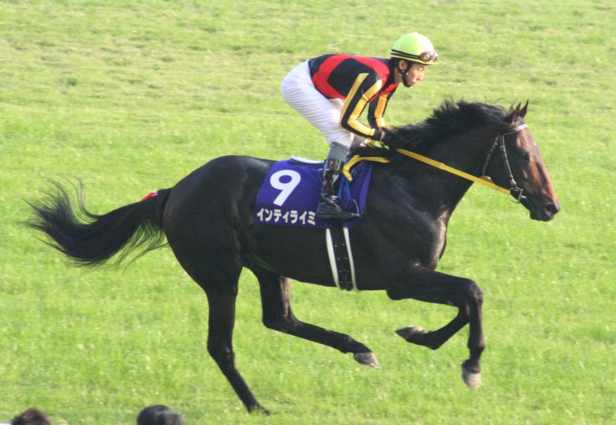 Inti Raimi(Horse)